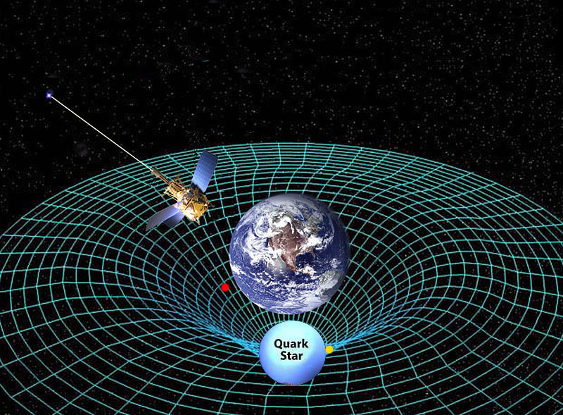 Quark deconfinement at different gravity